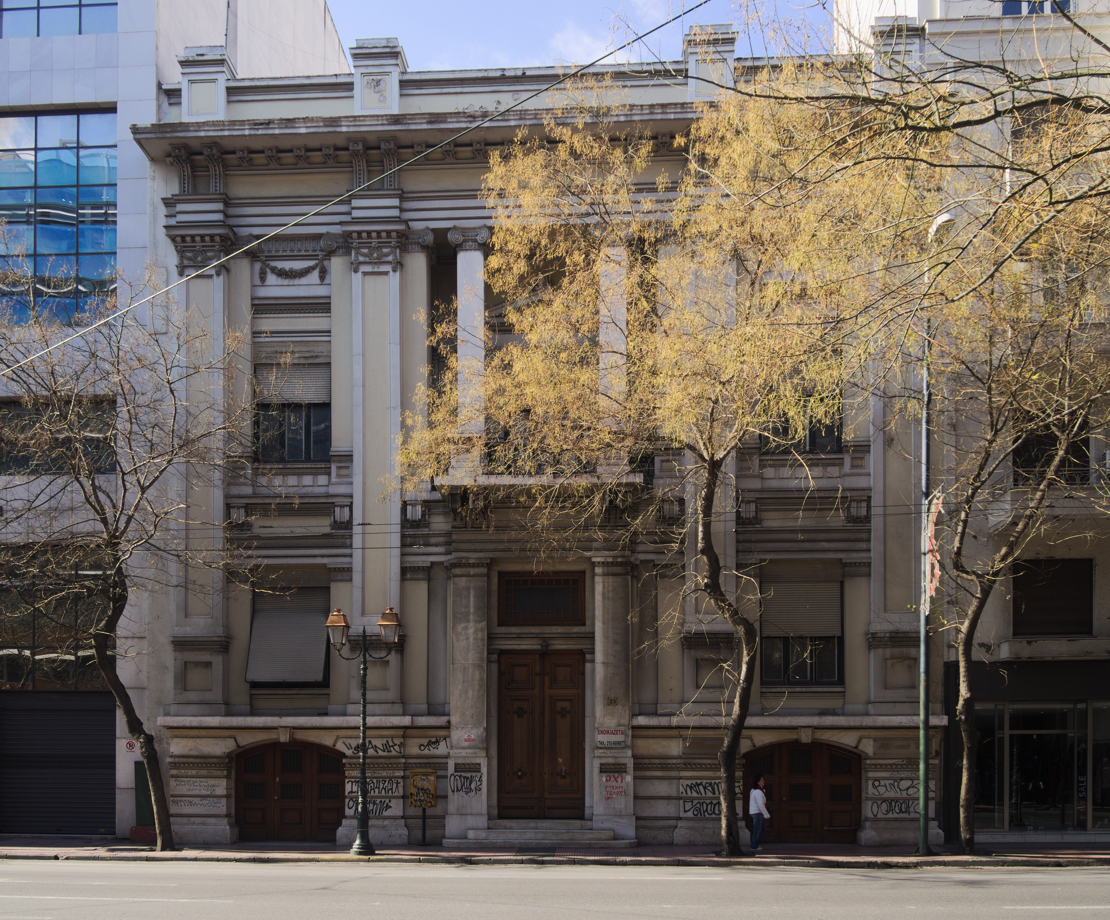 The building at Akadimias 23, Athens. Built in 1928 in the designs of Vasileios Tsagris (1882-1941).